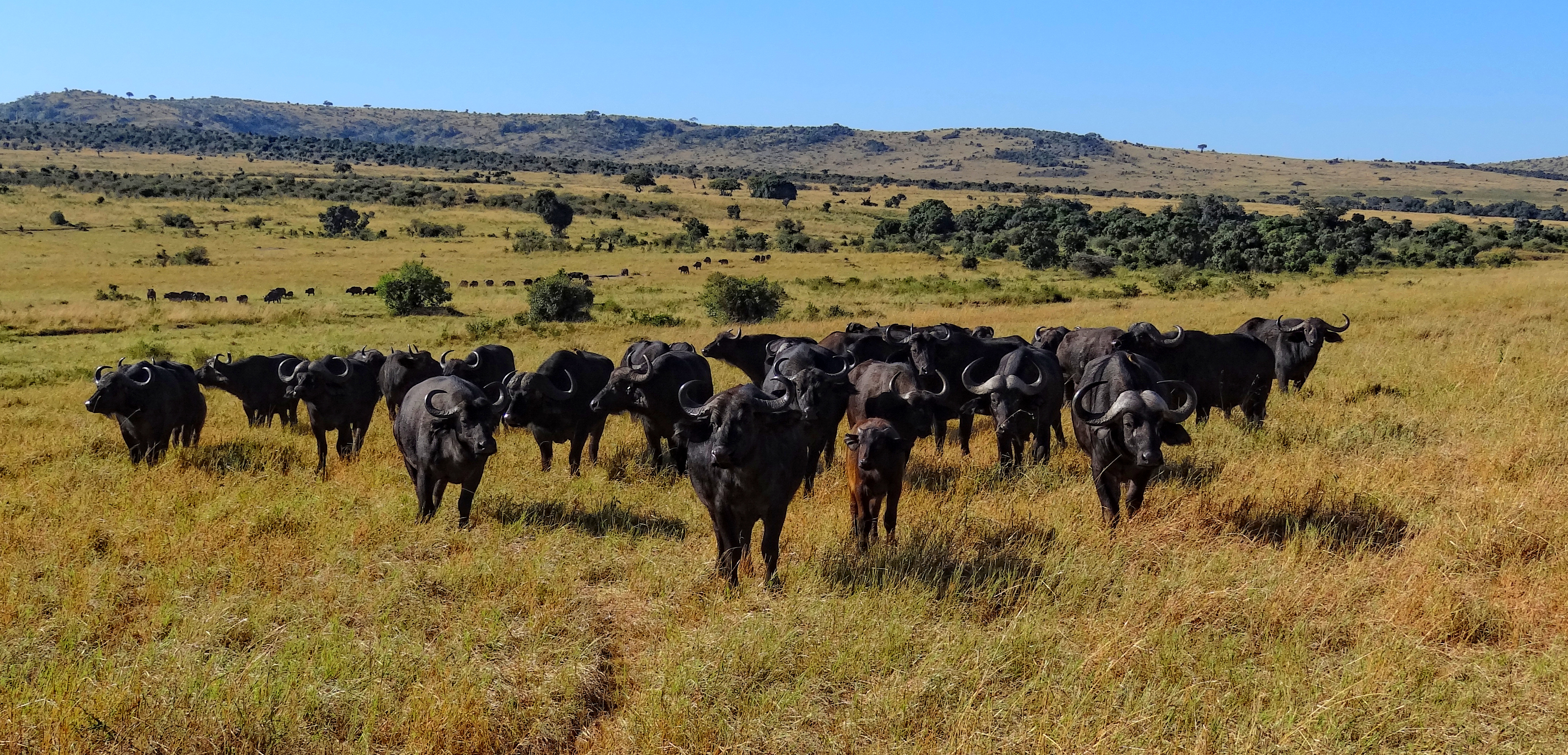 A herd of Cape Buffalo photographed on the move in the Masaai Mara National park in Kenya.